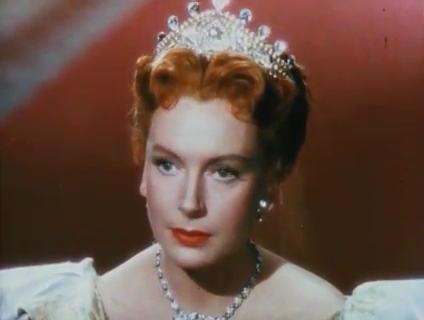 Deborah Kerr in The Prisoner of Zenda, by Richard Thorpe (1952)